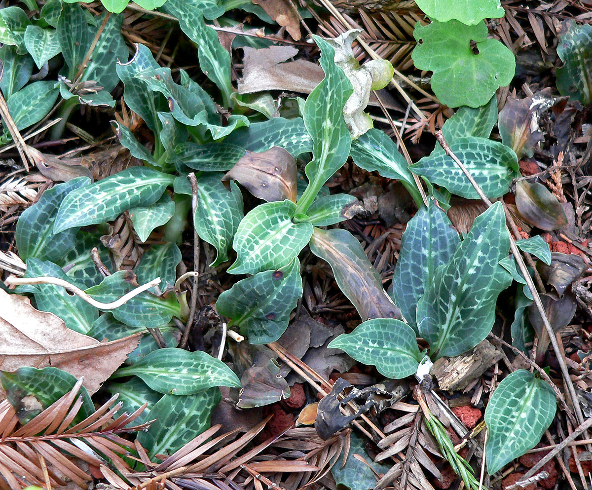 Photo of Goodyera oblongifolia at the Regional Parks Botanic Garden, Berkeley, California